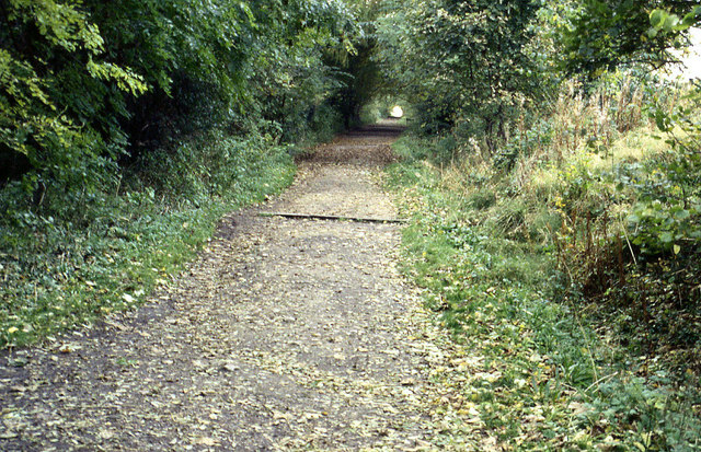 The track of the Middleton Incline of the Cromford and High Peak Railway.